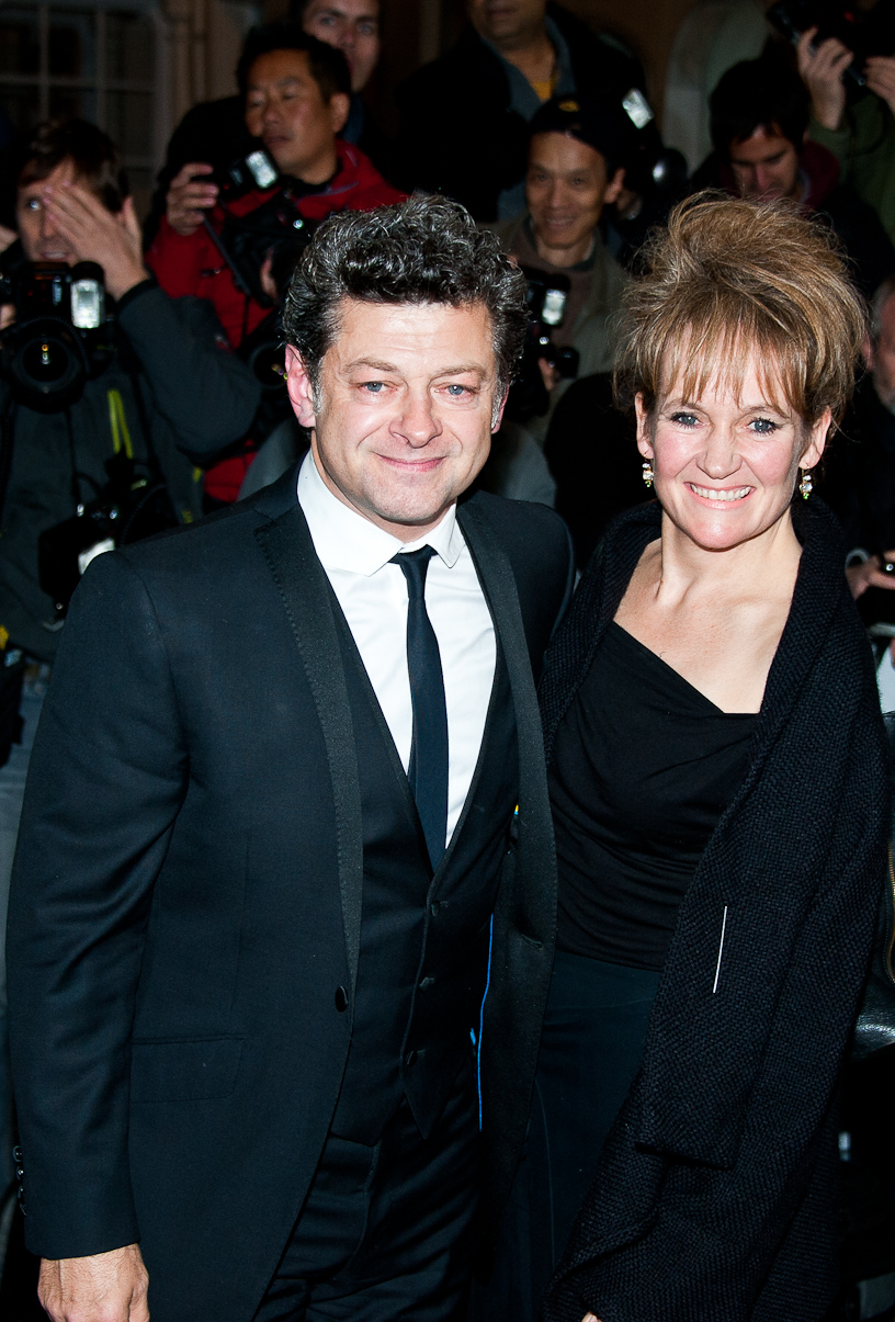 Andy Serkis and Lorraine Ashbourne at the 2013 Harper's Bazaar Women of the Year Awards